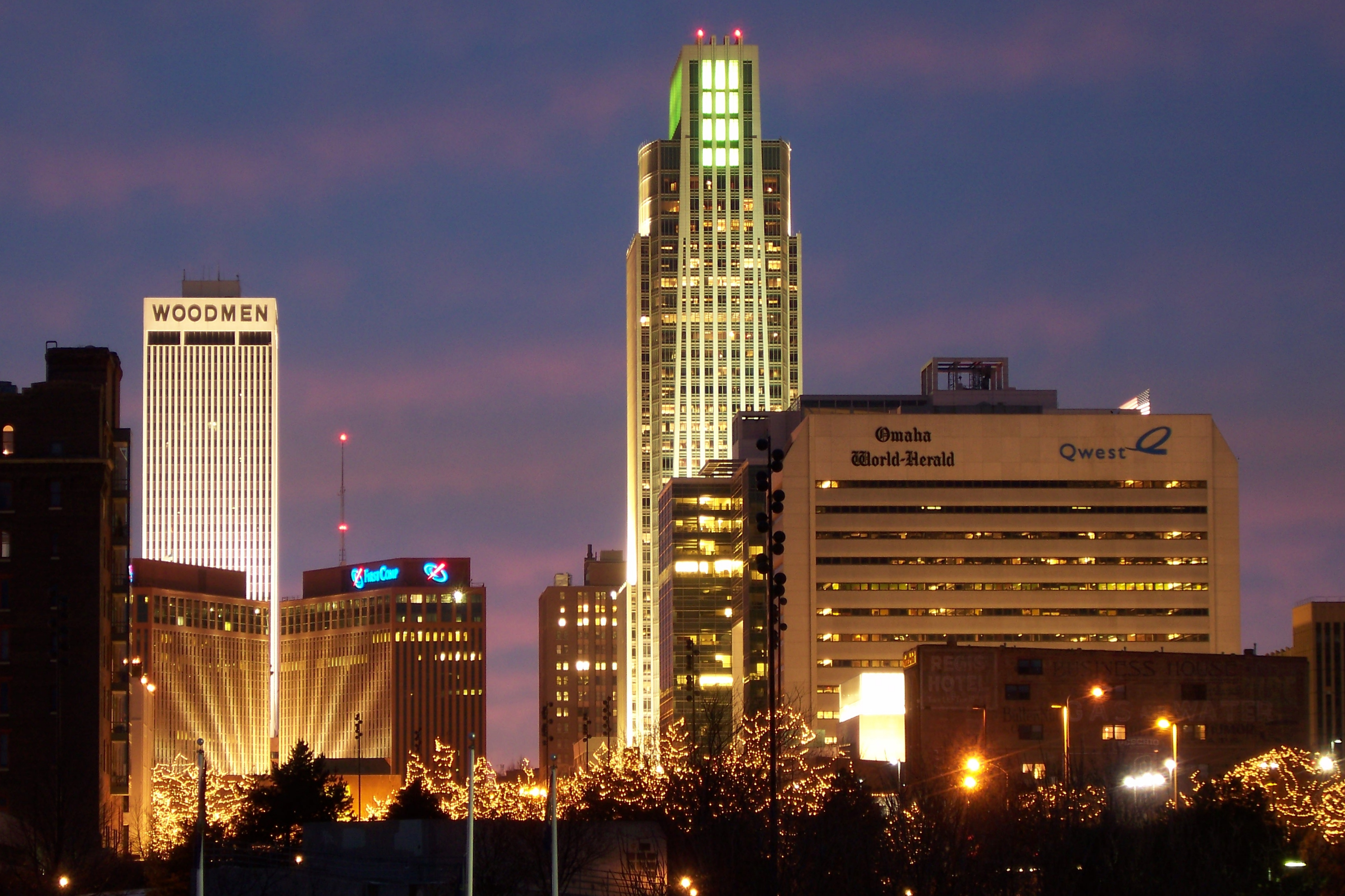 Downtown Omaha, Nebraska at night. First National building is in the center, with the Woodmen of the World tower on the left.